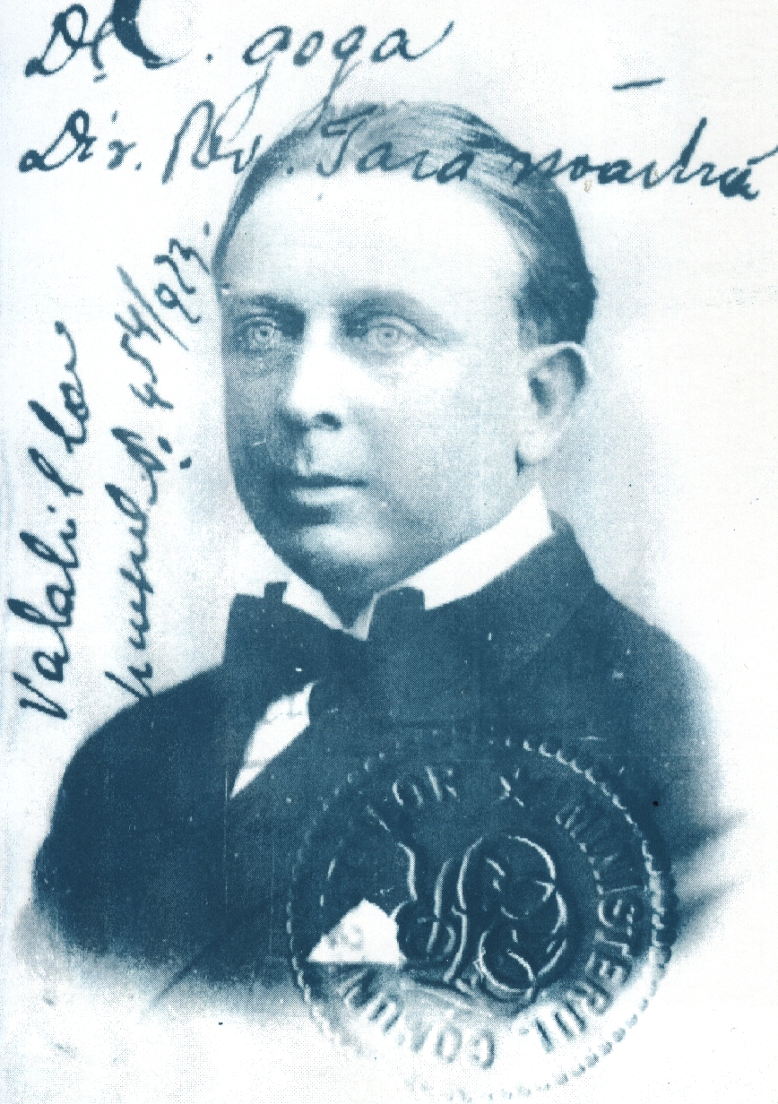 Octavian Goga